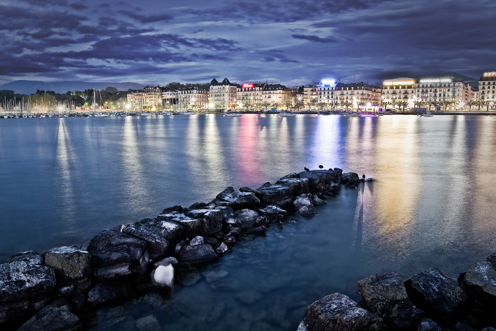 Eaux-vives by night